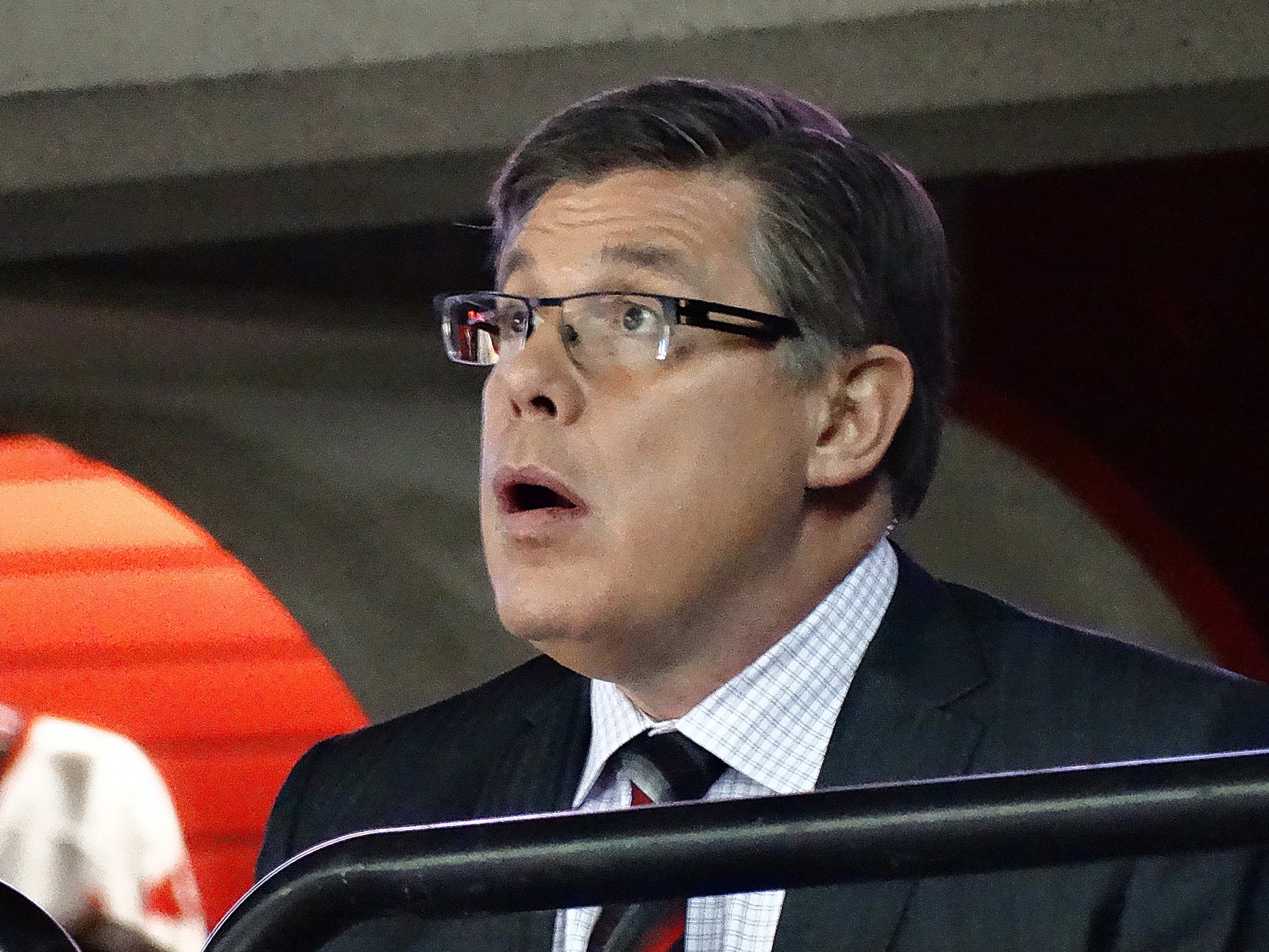 Sportsnet host, Rob Faulds watches the replay on the Jumbotron. The CHL / NHL Top Prospects game at Scotiabank Saddledome on January 15, 2014 in Calgary, Alberta, Canada. Team Orr defeated Team Cherry 4-3.